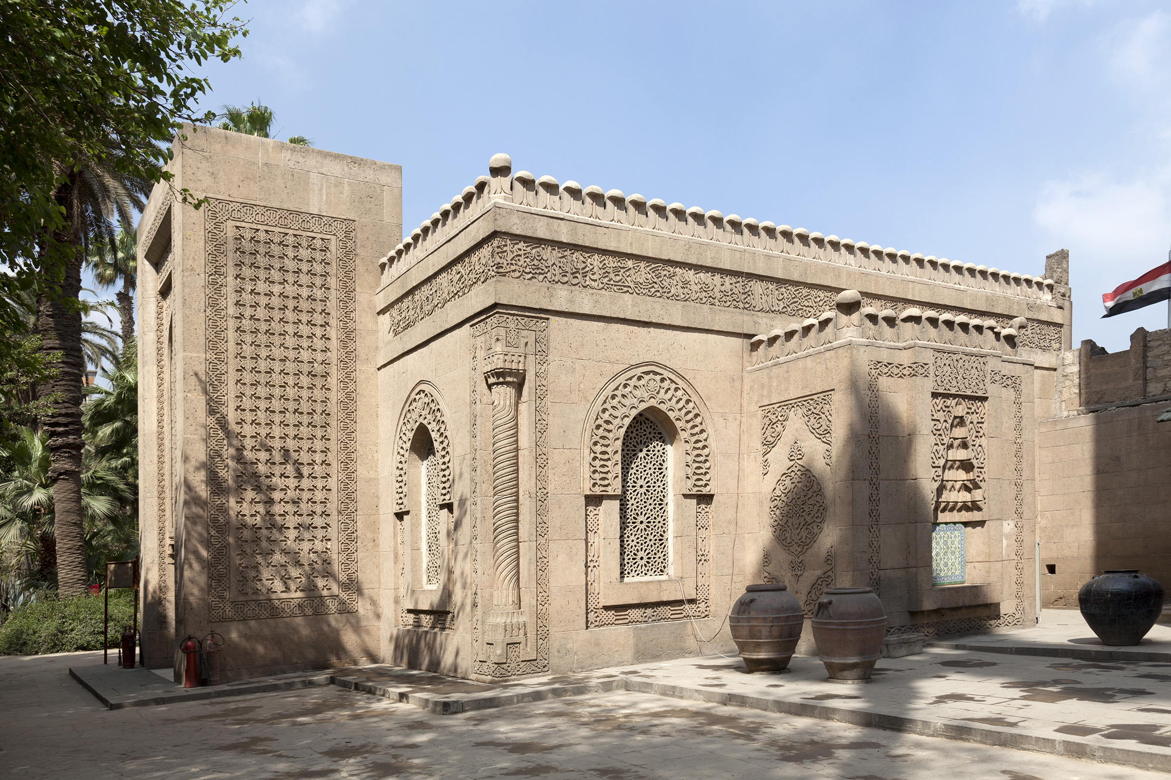 Mosque, Manial palace, Roda island, Cairo, Egypt